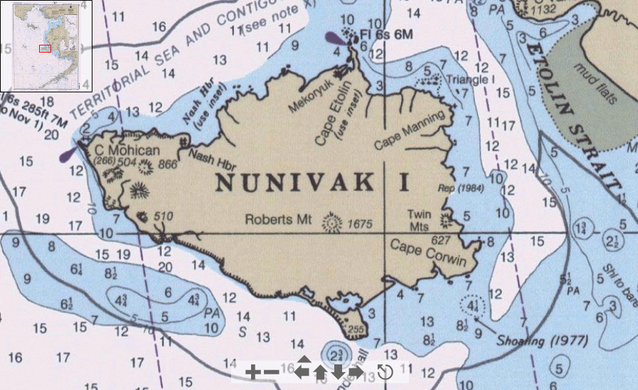 Detail from Bering Sea nautical chart showing Nunivak Island and surrounding area.